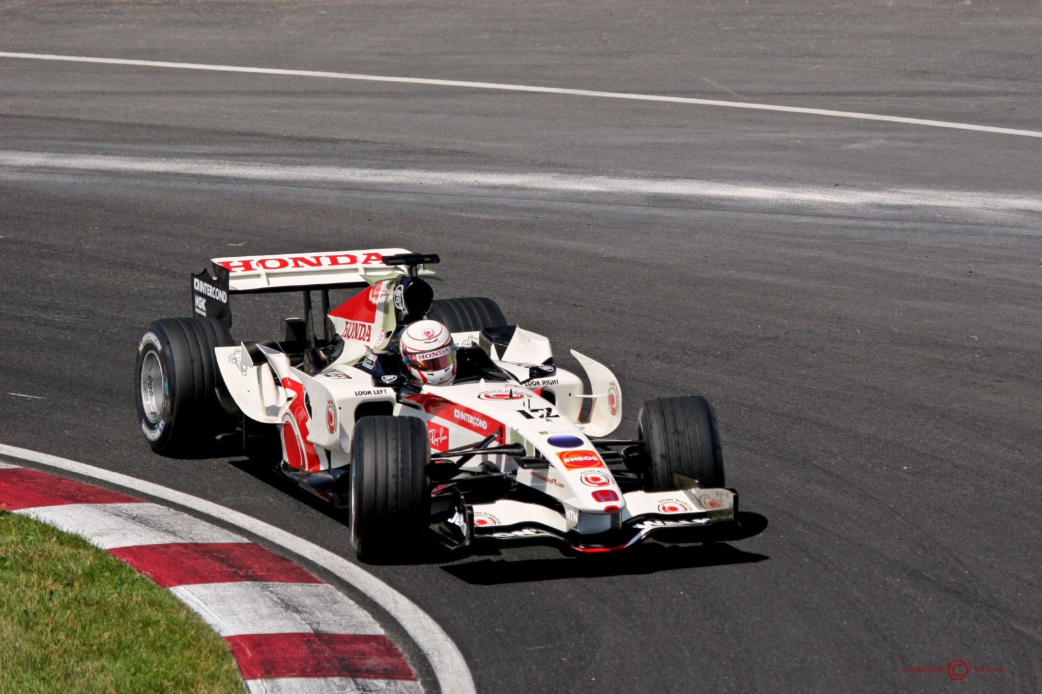 Jenson Button driving for Honda F1 at the 2006 Canadian Grand Prix.